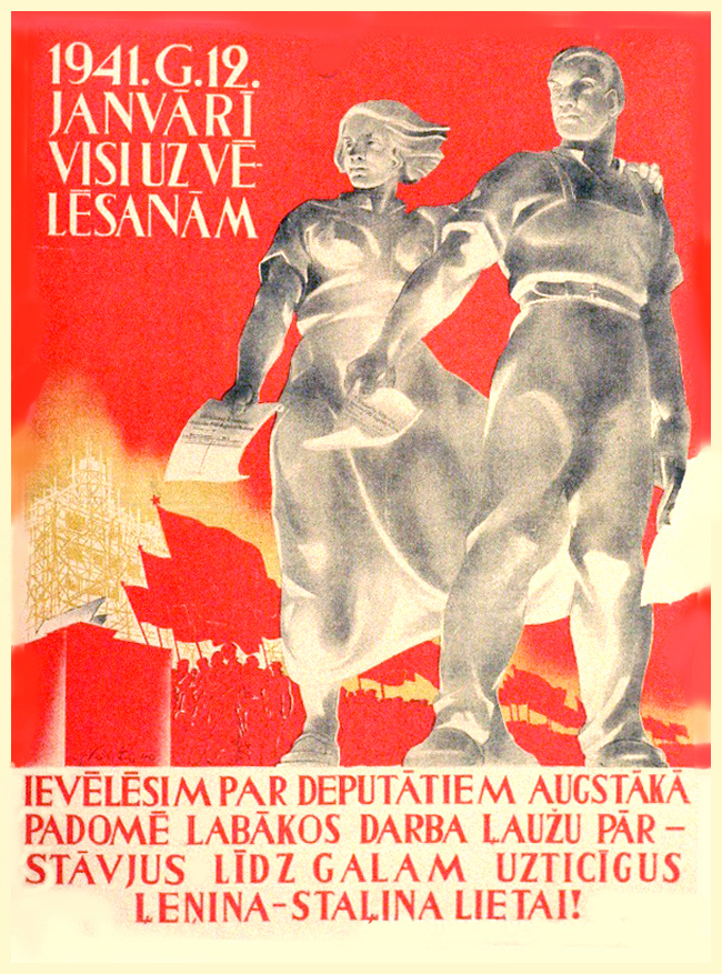 Poster. Latvia. 1941. Elections to the Supreme Soviet of the USSRLatviešu: Plakāts.Latvijas PSR. 1940.